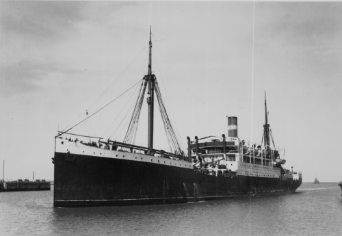 SS Bahia Blanca as Argentinian transport in Hamburg South